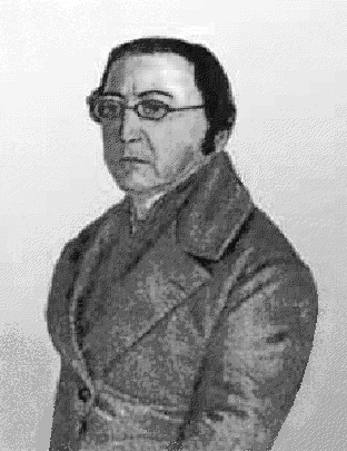 Giuseppe Conti, Italian abbot, mathematician and inventor (Parma 1779 - Naples 1855)